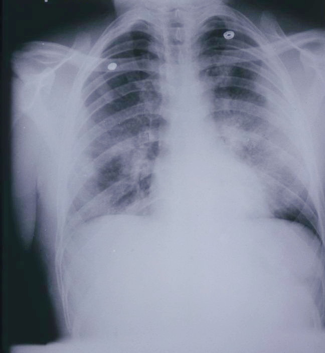 Alveolar proteinosis - Chest x-ray